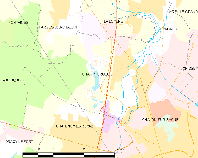 Map of French municipality